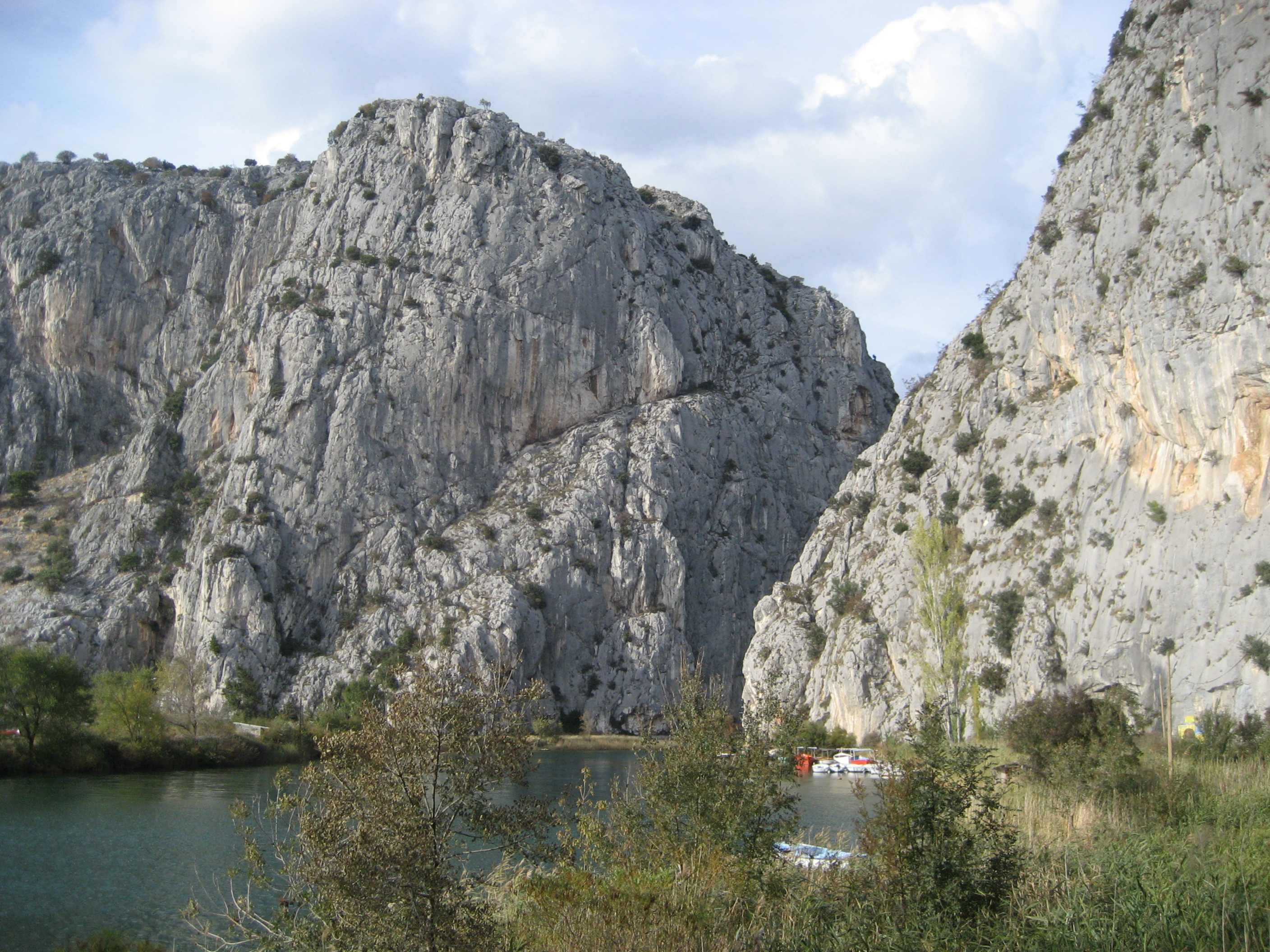 Cetina Canyon in Omis, Croatia